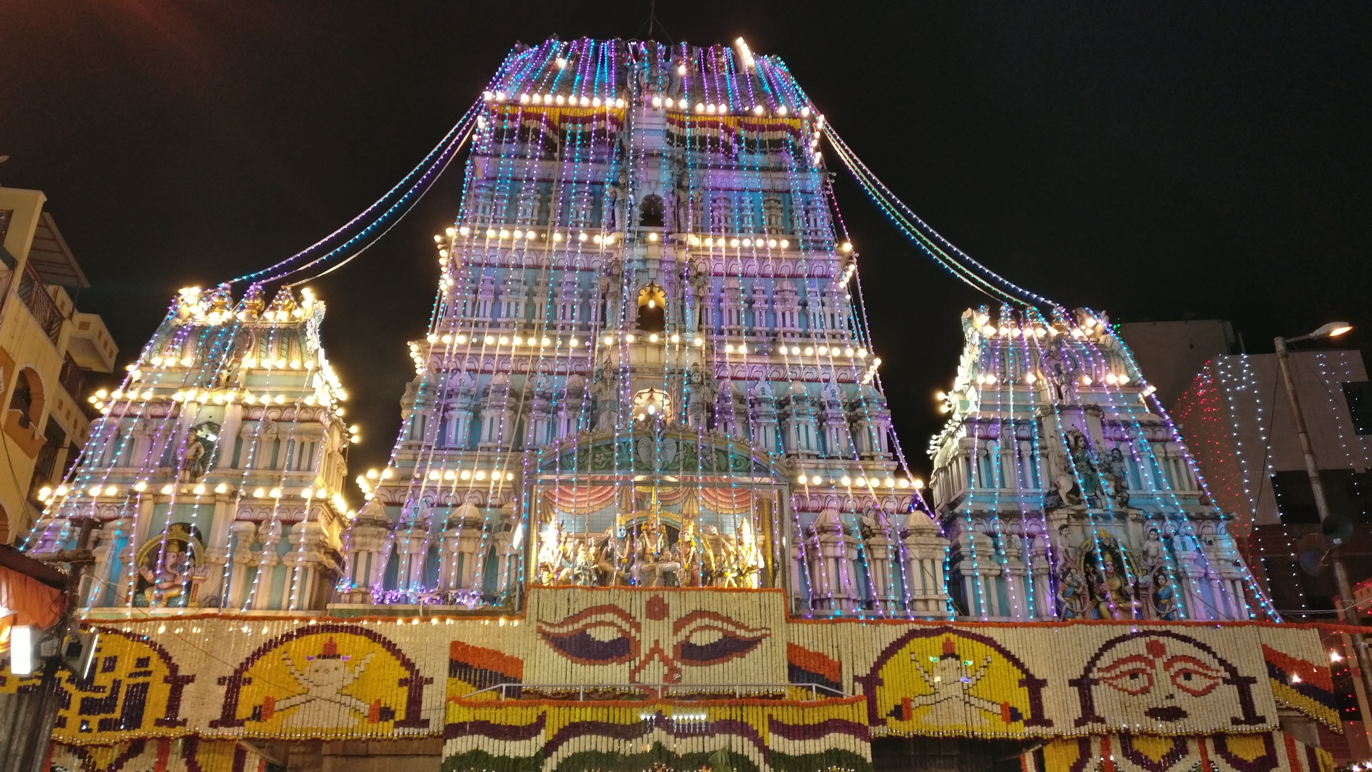 Bengaluru Karga at Shri Dharmaraya swamy temple.